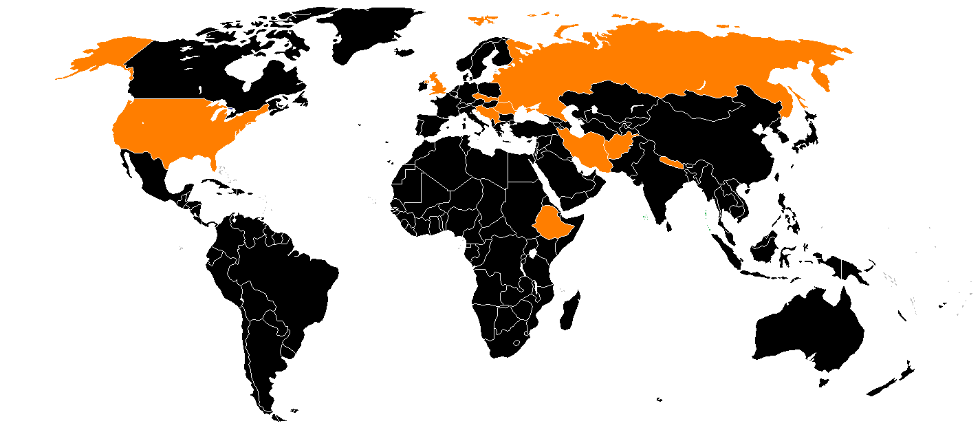 President Radhakrishnan led 11 state visits during his tenure covering Afghanistan, Iran, USA, UK, USSR, Nepal, Ireland, Yugoslavia, Czechoslovakia, Romania and Ethiopia between 1963 and 1965. Information from the President of India's Secretariat.